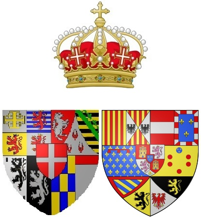 Arms of Maria Antonia of Spain as Queen of Sardinia